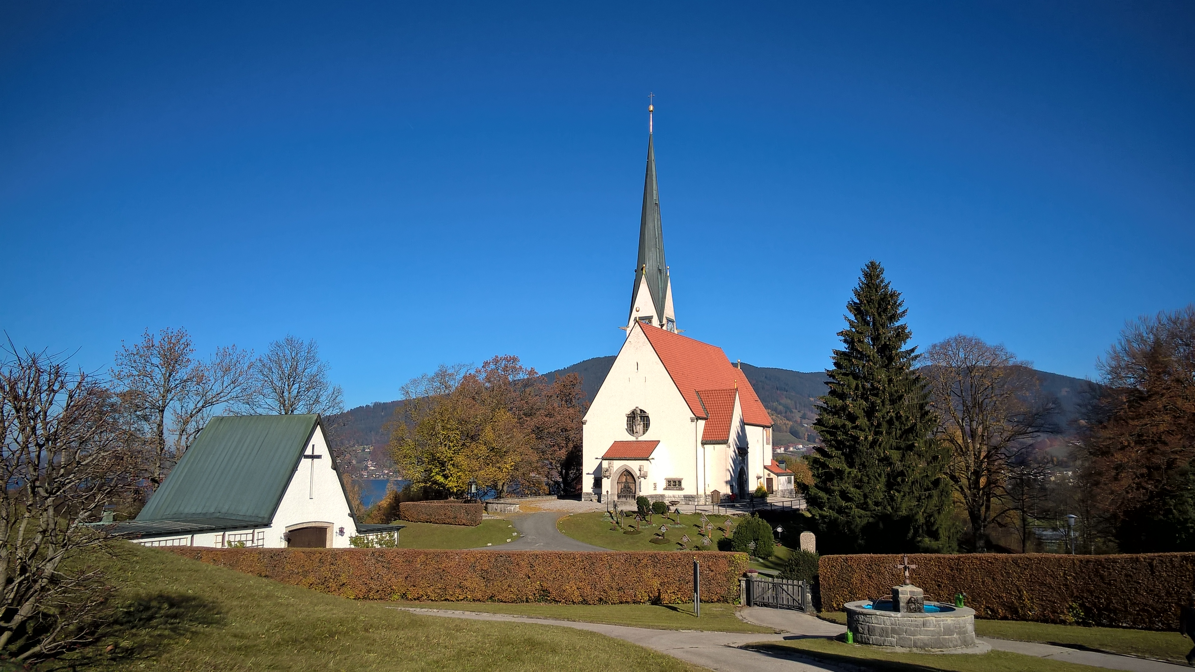 kath. church Maria Himmelfahrt This is a photograph of an architectural monument.